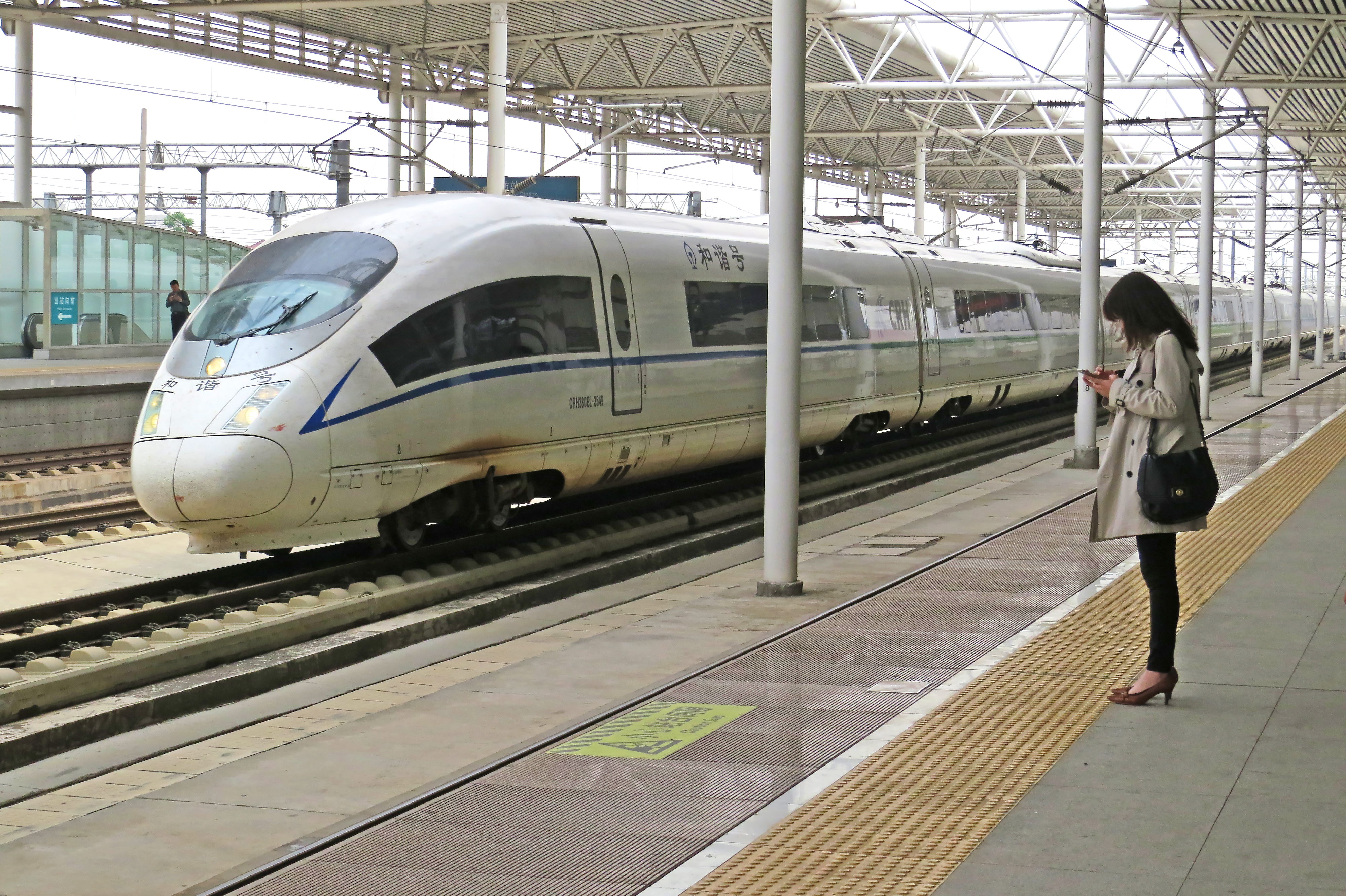 G102 from Shanghai Hongqiao to Beijing South, seen passing Langfang. This trainset is based in Hongqiao EMU depot, and judging from the timetable of Beijing South Railway Station, this train must be G102. Another 380BL passed here later as G104. Note the bloodstain on the head - probably a result of birdstrike.